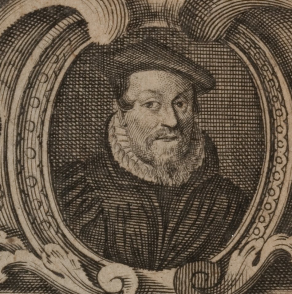 Detail of frontispiece of "Manuale ministrorum ecclesiae" that shows Felix Bidembach, german theologian.